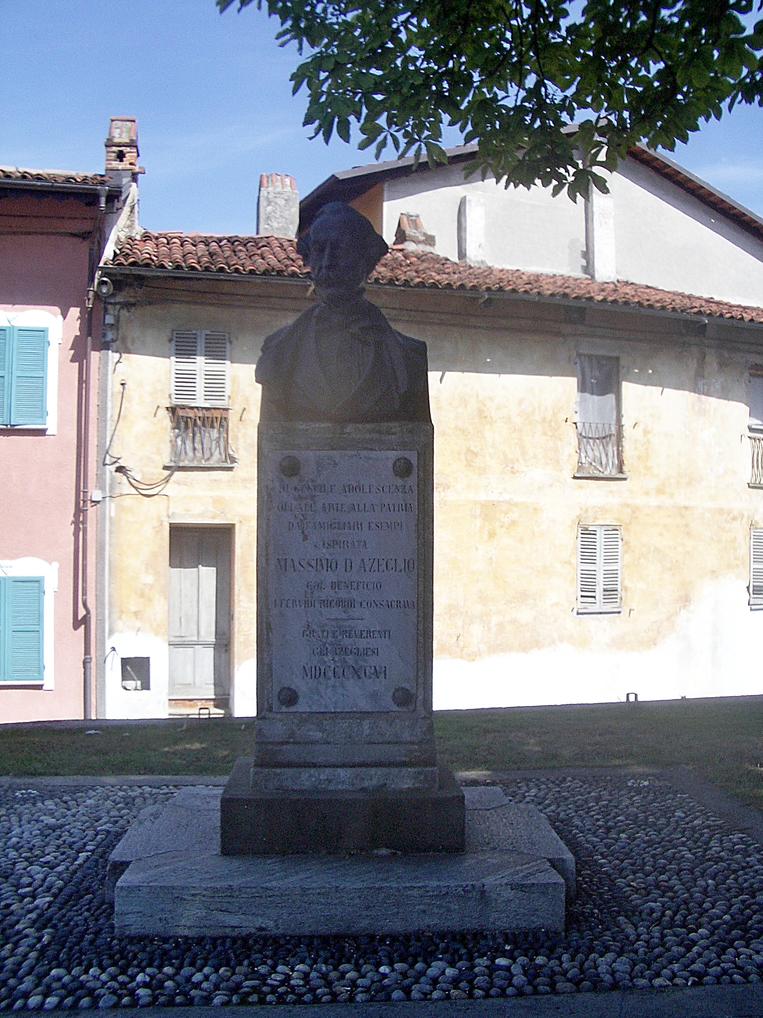 Azeglio, the monument to Massimo Tapparelli, marquess of Azeglio